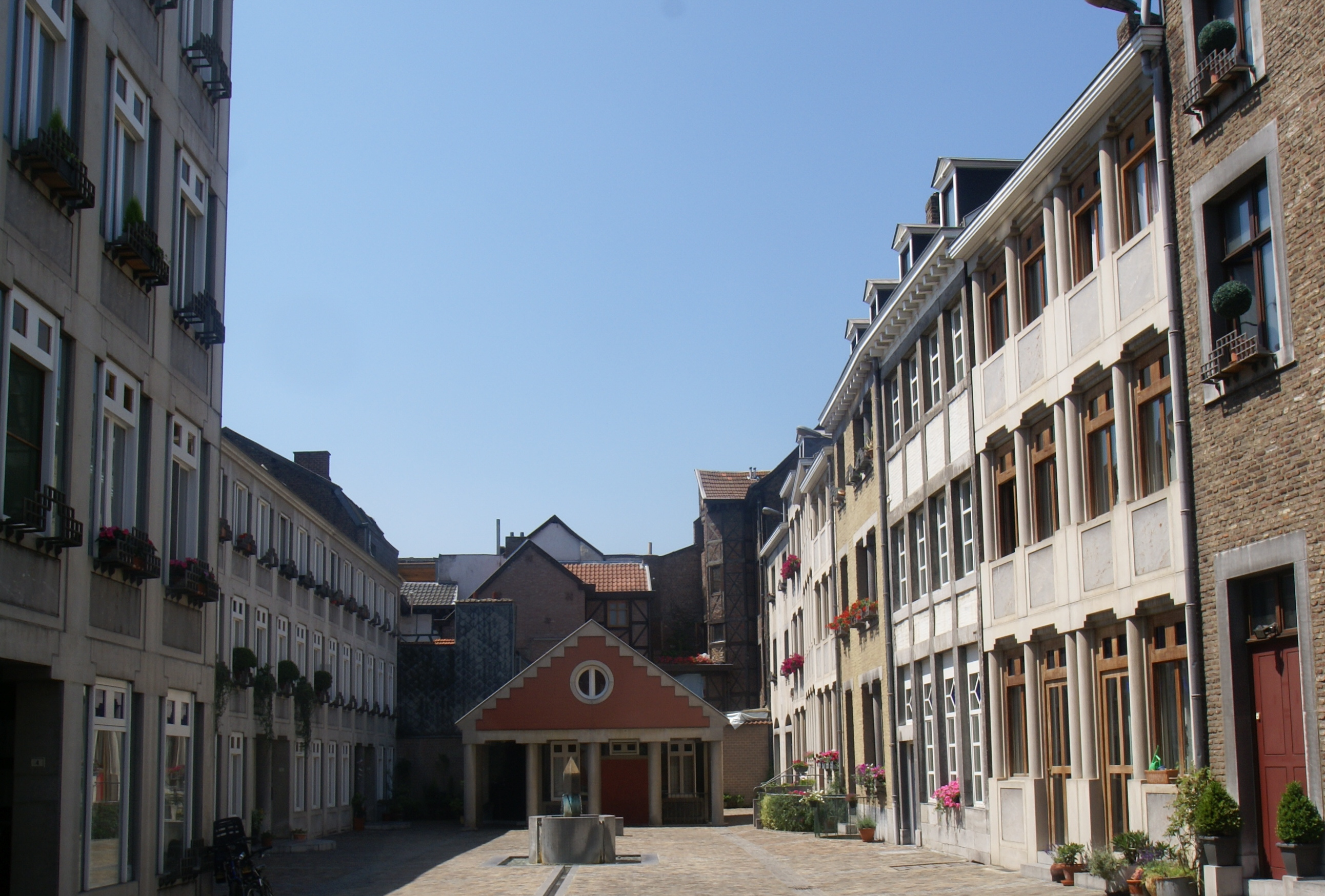 Liège (Belgium): Cour Saint-Antoine, court yard